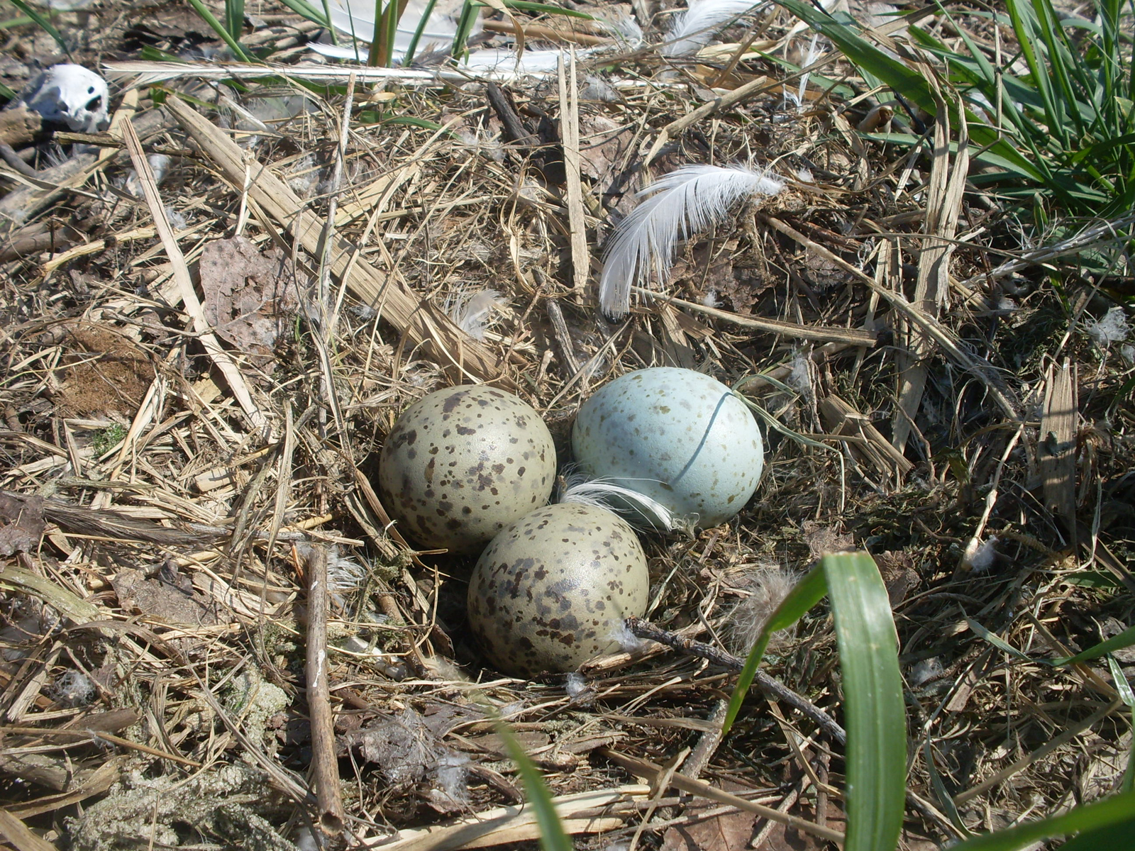 The nest of the Caspian Gull (Larus cachinnans), Ukraine, Cherkasy region